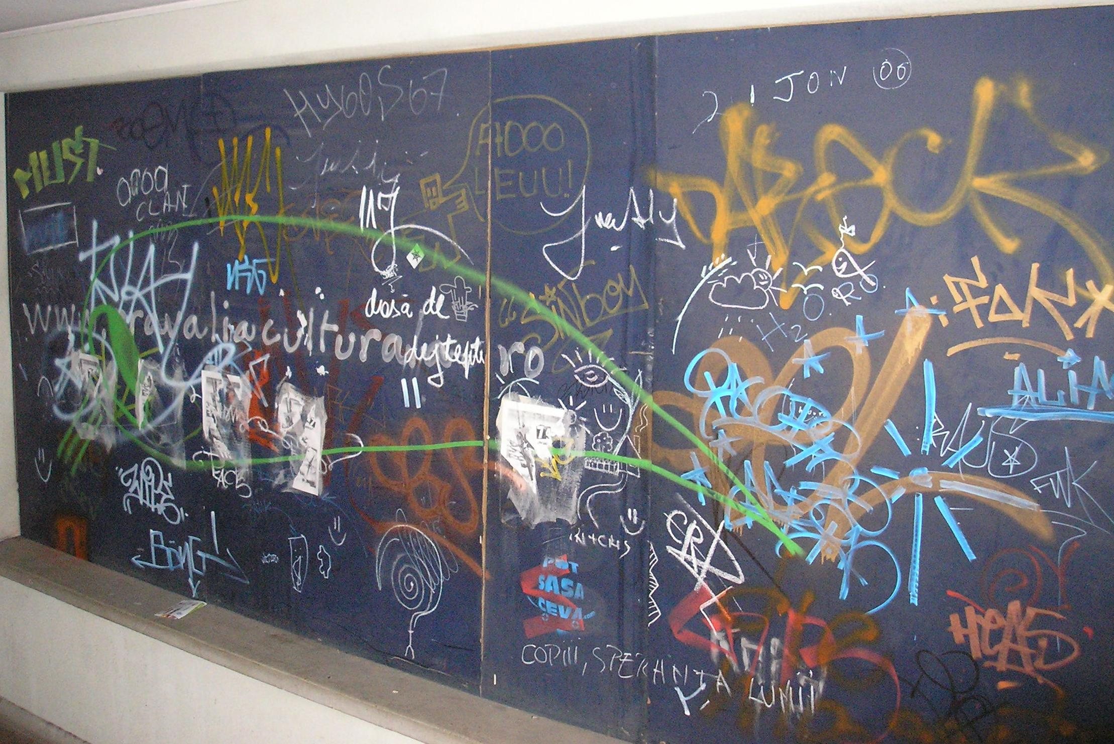 Graffiti in Bucharest, July 2007.